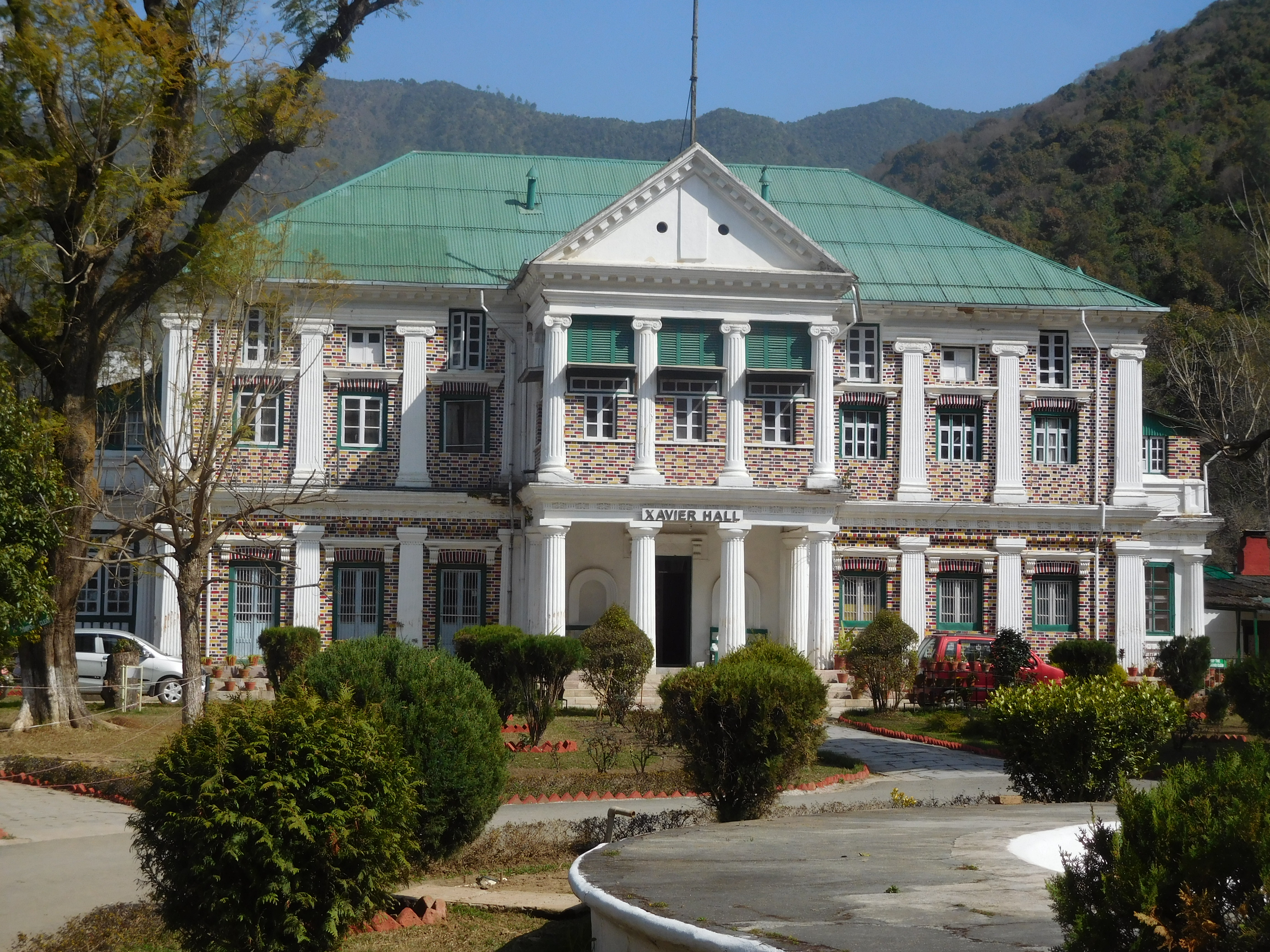 The royal country villa of Godavari was given to the Jesuit Fathers for them to open their first school in Nepal (in Godavari, near Kathmandu)